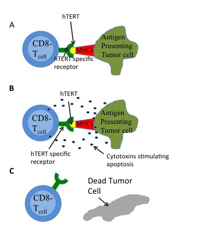 Targeted immunotherapy of malignent cells by inducing apoptosis.